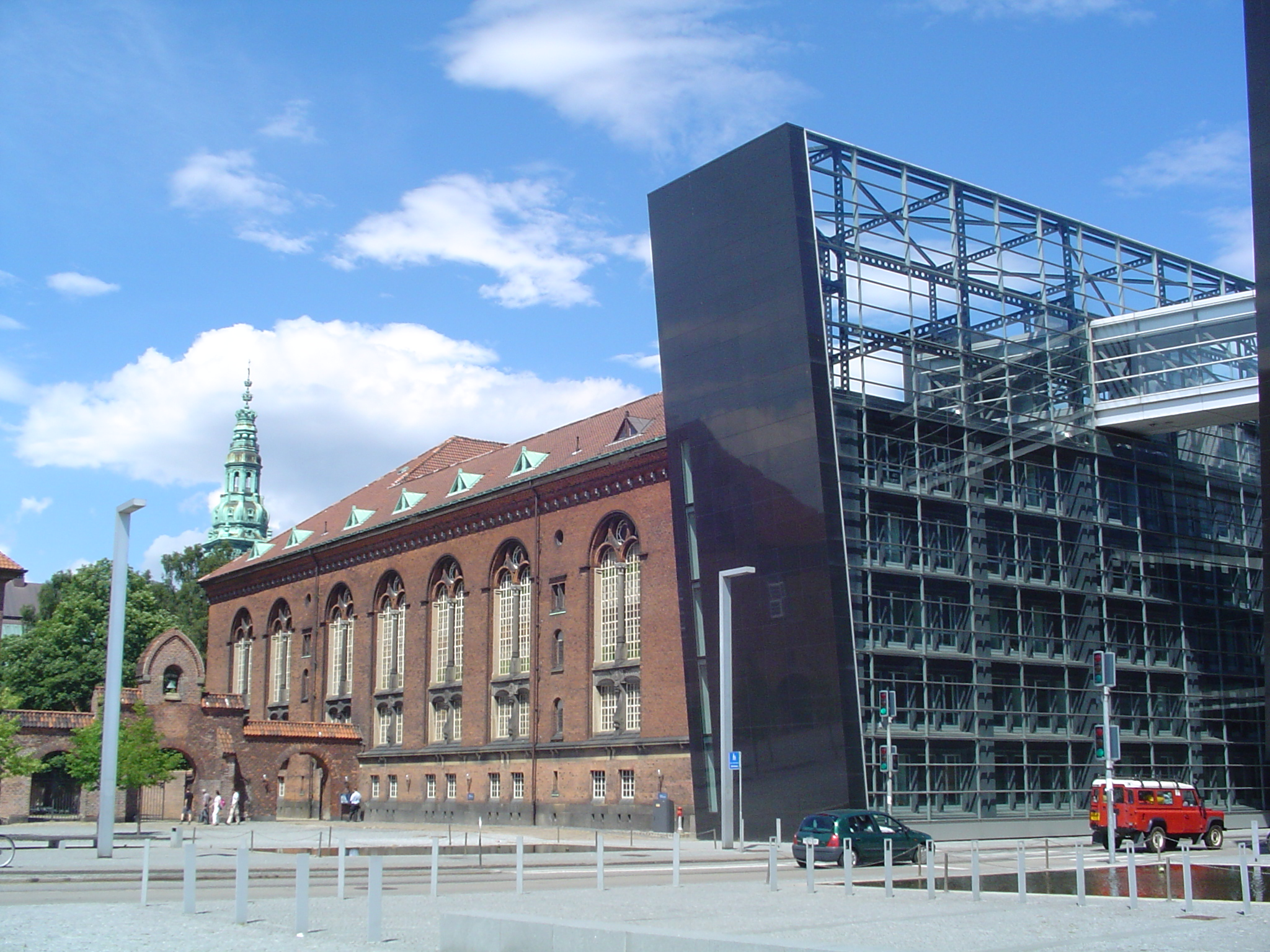 The Danish Royal Library. Taken by user:Thue in the sommer of 2005.